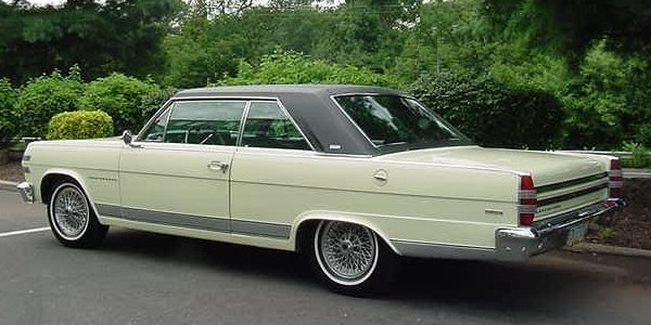 1966 AMC Ambassador DPL 2-door hardtop (no B-pillar) by American Motors Corporation (AMC). A full-size car finished in yellow with black vinyl covered roof. Picture taken during the 2003 AMCRC car show in Somerset, New Jersey. Note: this car had non-factory wire wheels.